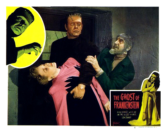 The Ghost of Frankenstein lobby card featuring Lon Chaney Jr as the monster and Bela Lugosi as Igor. Image is assumed to be in the public domain as no copyright notice is in evidence.